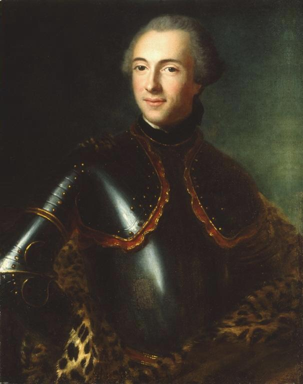 Portrait of Charles Le Moyne du Longueuil, 3rd Baron du Longueuil, 1724-1755